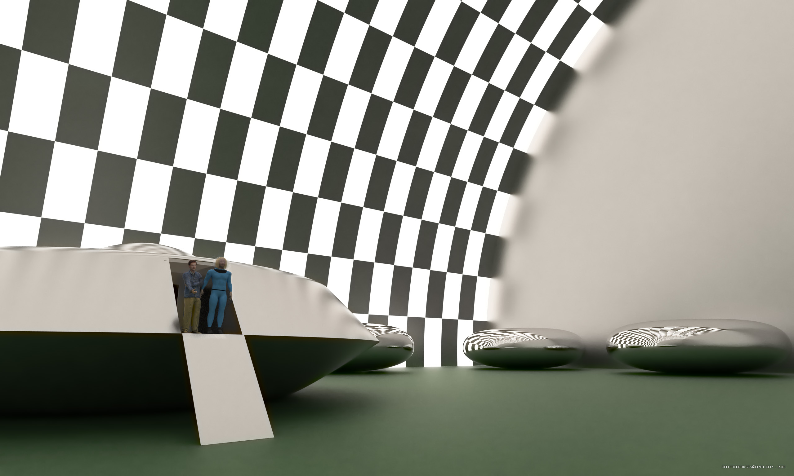 Travis Walton escorted out by the muscular human looking ET from the dark grey ship into the bright light and fresh air of the human ET hangar. The smaller mirror surfaced M&M shaped craft in the background presumably belong to the human ETs, one of which was later used to return Travis to earth. Travis first hesitated to walk down the steep 45 degree ramp but found the surface had a strong rubber like grip. The green hanger floor had a rubbery surface like a tennis court or running track.